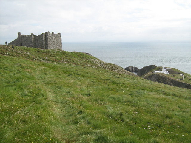 Marisco Castle from the north west